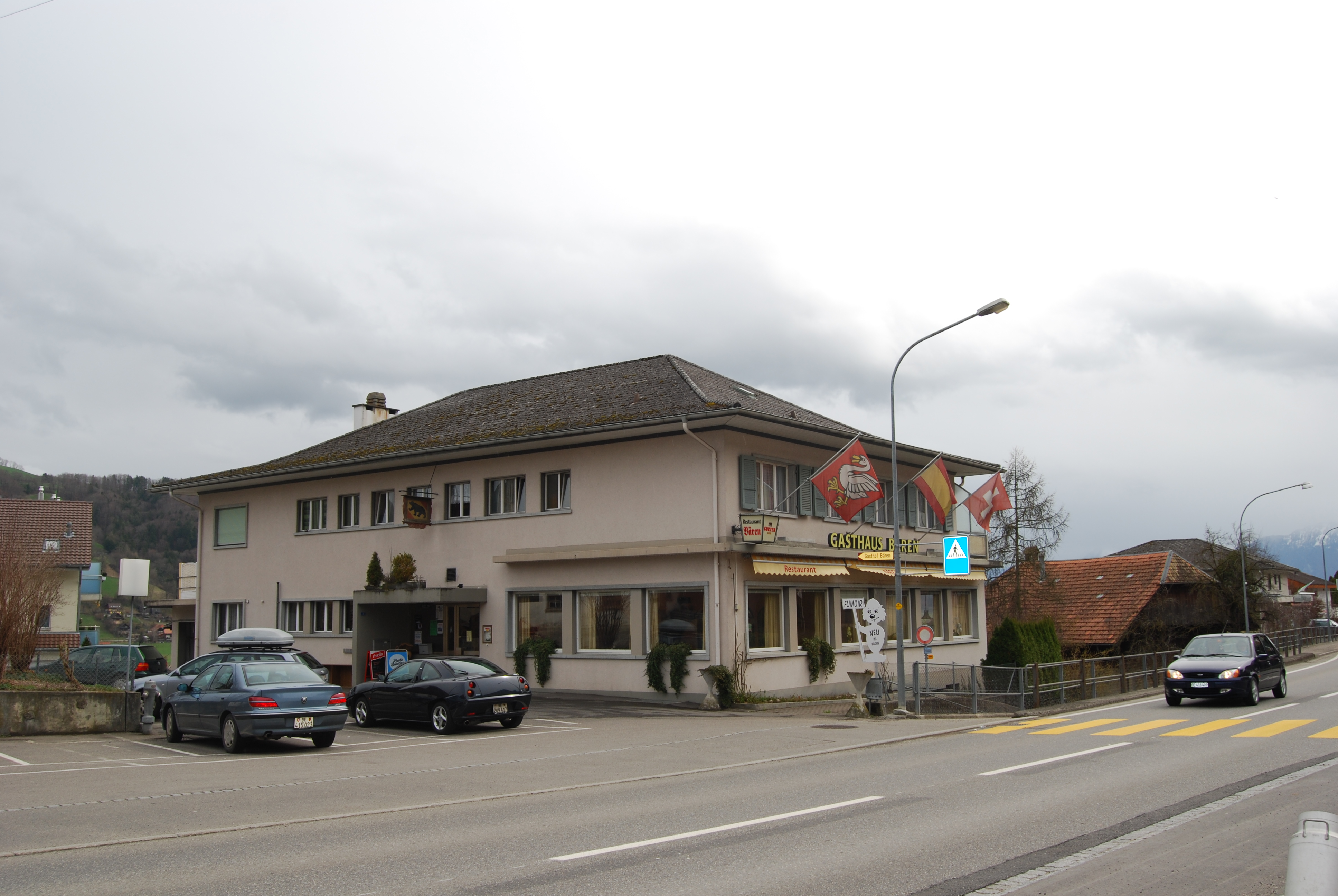 Toffen, canton of Bern, SwitzerlandEsperanto: Toffen, Kantono Berno, Svislando